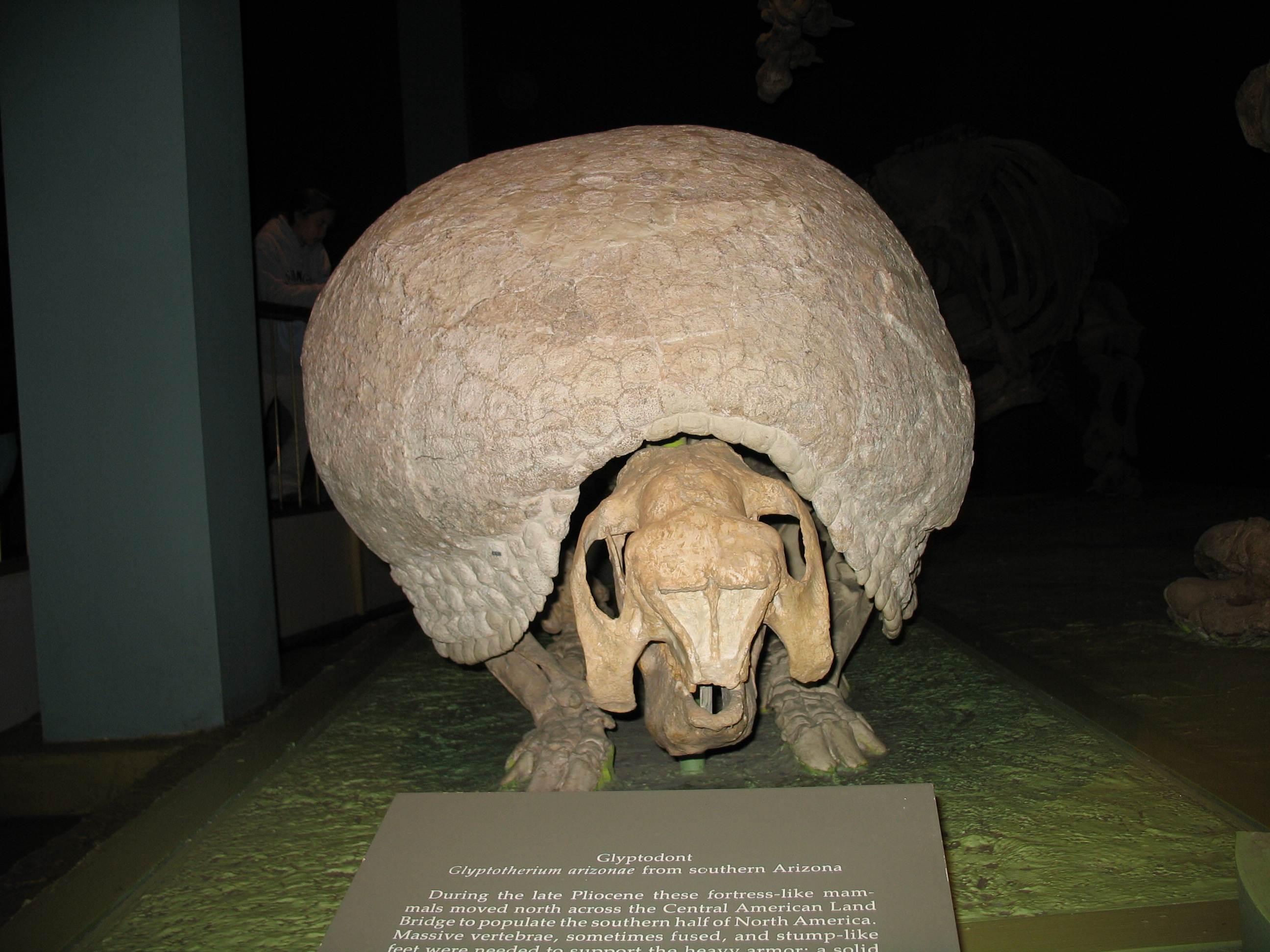 Skeleton of Glyptotherium arizonae